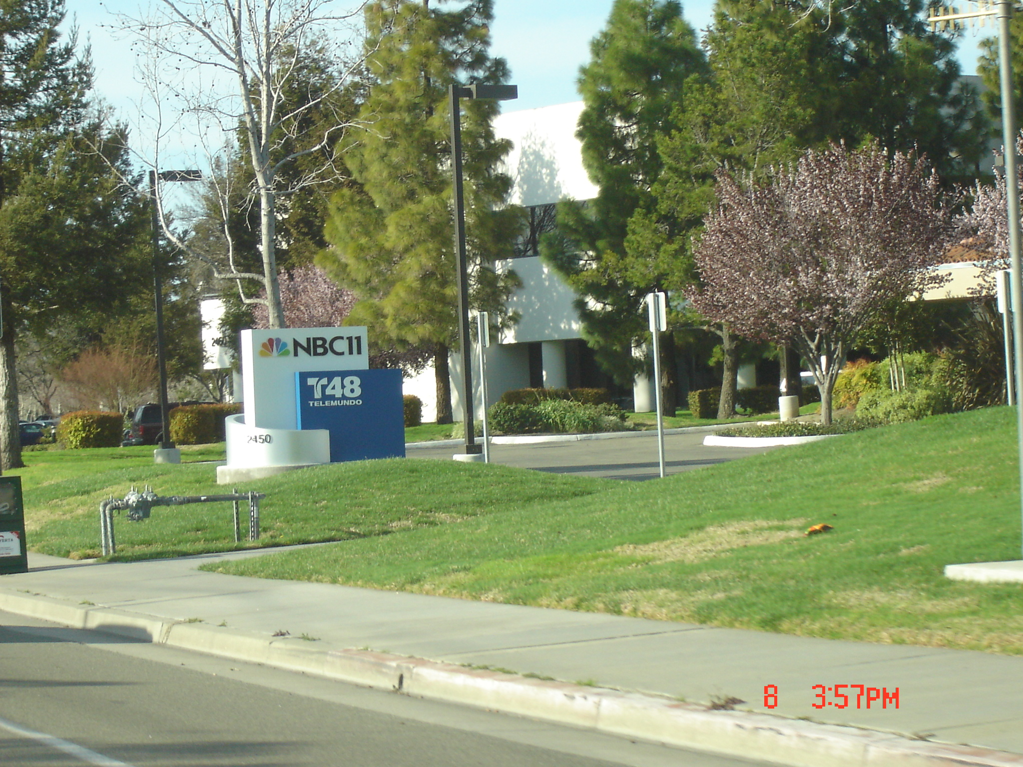 KNTV NBC 11/KSTS 48/CNBC Silicon Valley's Main digital studios located at 2450 N. First St. San Jose, CA 95131 located near the San Jose Airport.